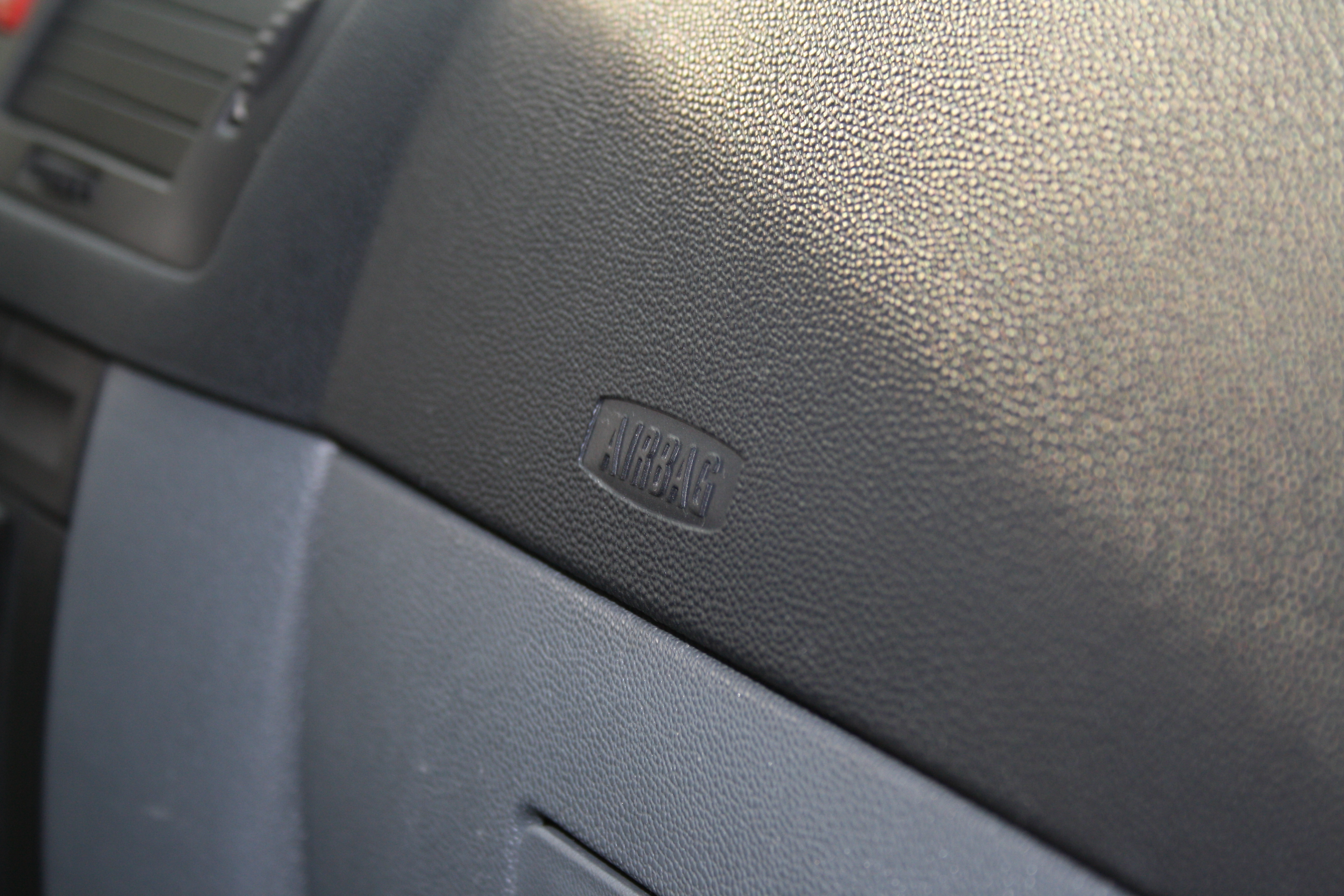 Air bag of front passenger seat in Škoda Fabia I.